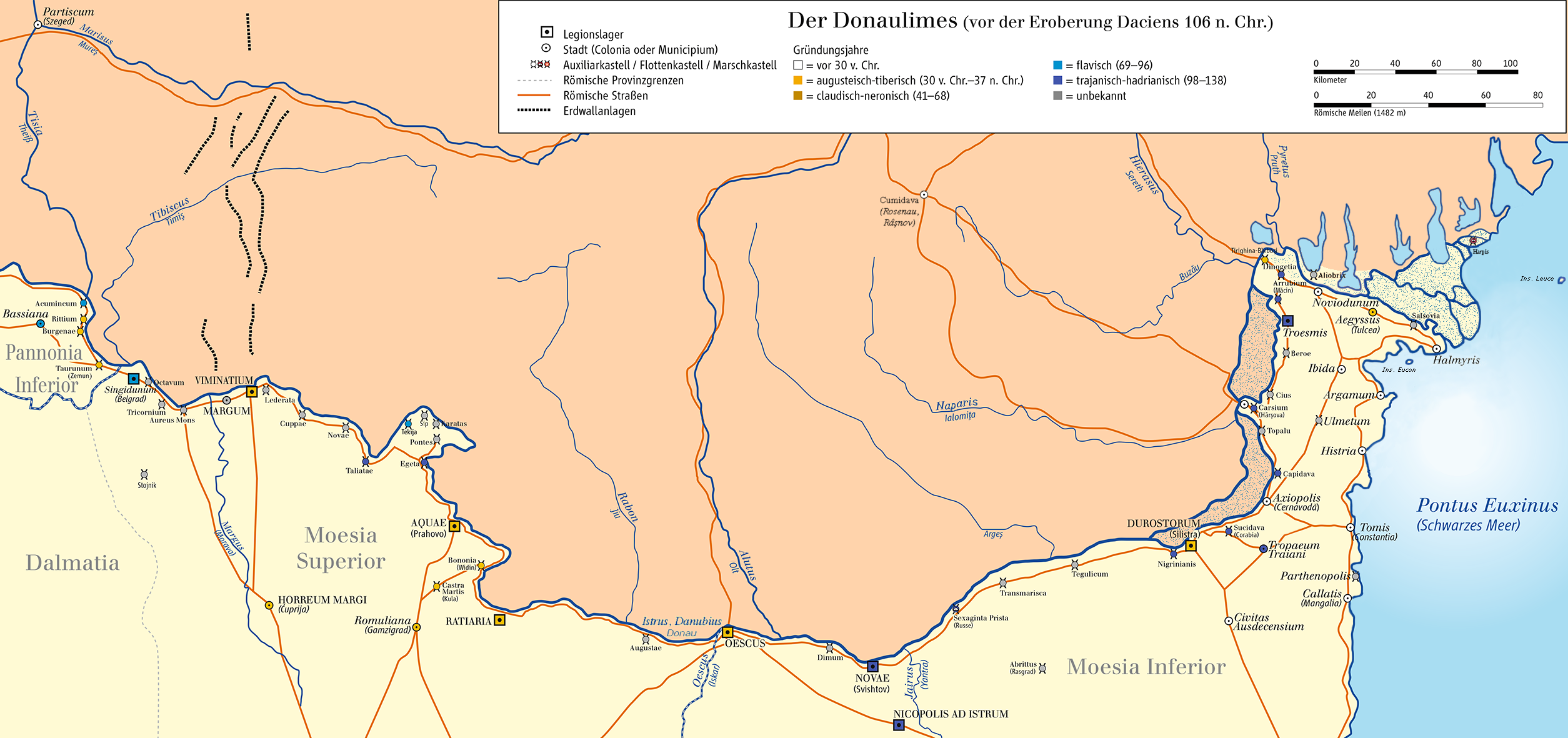 Map of Limes in Serbia, Romania and Bulgaria (Donaulimes/system of fortifications representing the boundary of Roman control ; shoreline of the time since Liviu Giosan, et al., “Young Danube delta documents stable Black Sea level since the middle Holocene: Morphodynamic, paleogeographic, and archaeological implications.” Geology 34.9 (2006), 757-760 and “Early Anthropogenic Transformation of the Danube-Black Sea System”, Scientific Reports 2 (2012), 10.1038/srep00582; Luminiţa Preoteasa, et al., “Coastal changes from open coast to present lagoon system in Histria region (Danube Delta).” Journal of Coastal Research 65 (2013), 564-569; Filip Florin, Liviu Giosan, “Evolution of Chilia lobes of the Danube delta: Reorganization of deltaic processes under cultural pressures”. Anthropocene 5 (2014), 65–70; Guénaëlle Bony, et al., “History and influence of the Danube delta lobes on the evolution of the ancient harbour of Orgame (Dobrogea, Romania)”. Journal of Archaeological Science 61 (2015), 186-203; Luminiţa Preoteasa, et al., “The evolution of an asymmetric deltaic lobe (Sf. Gheorghe, Danube) in association with cyclic development of the river-mouth bar: Long-term pattern and present adaptations to human-induced sediment depletion”, Geomorphology 253 (2016), 59–73.